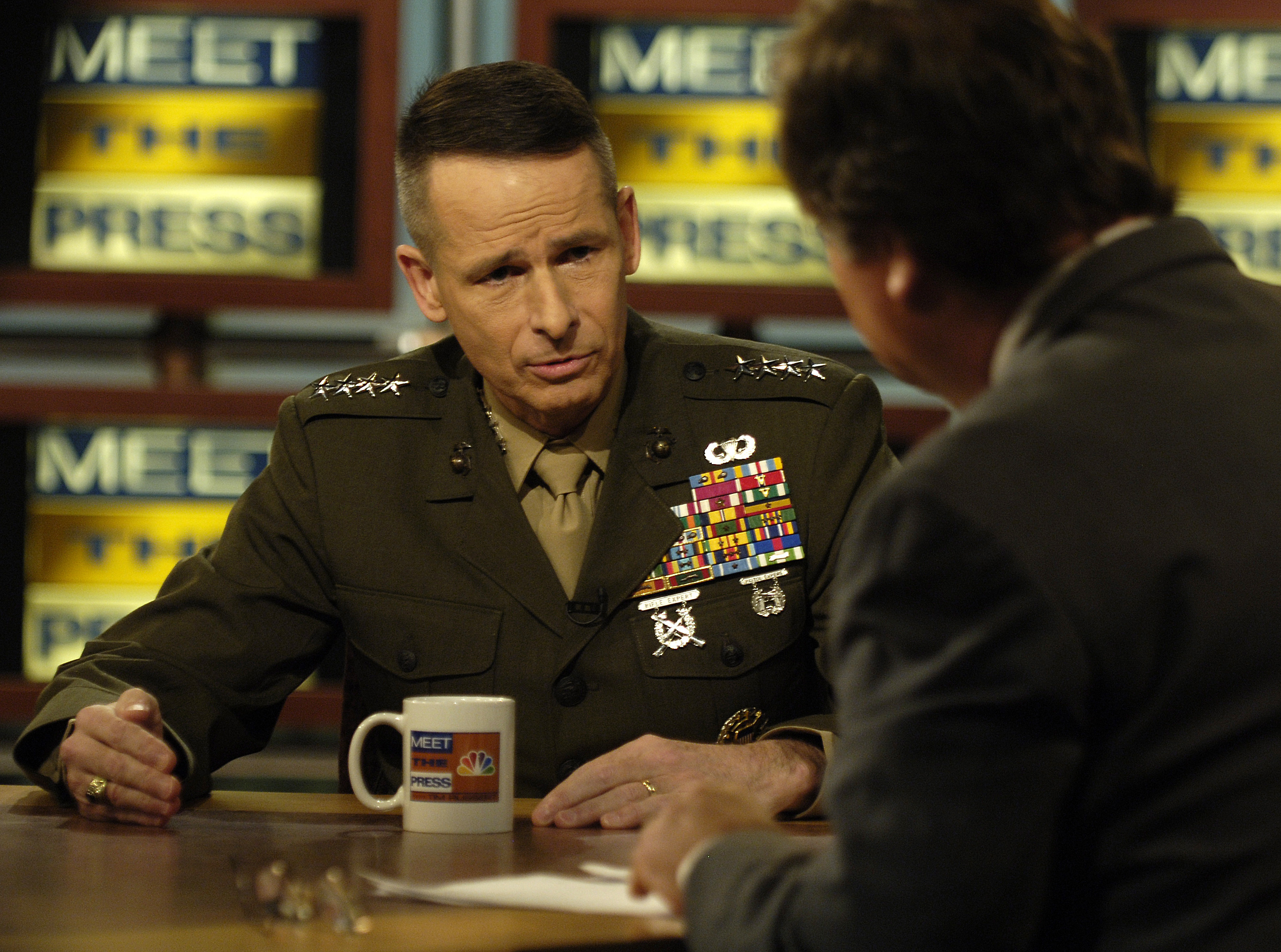 Chairman of the Joint Chiefs of Staff Gen. Peter Pace, U.S. Marine Corps, responds to a question asked by host Tim Russert during an interview on NBC's Meet the Press at the NBC studio in Washington, D.C., on March 5, 2006.